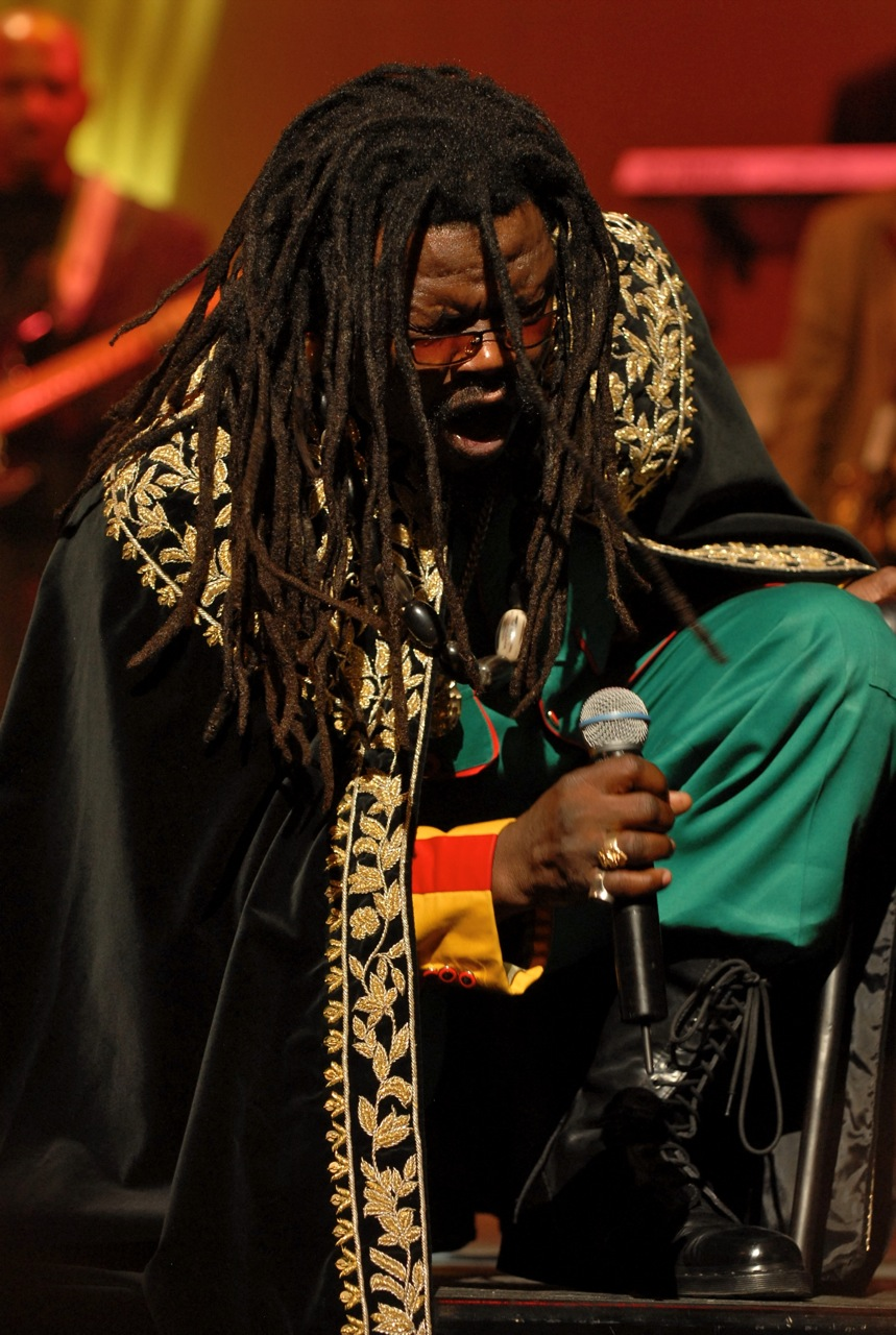 Reggae artist Luciano performing at the 2007 International Reggae and World Music Awards (IRAWMA), Apollo theater, New York City